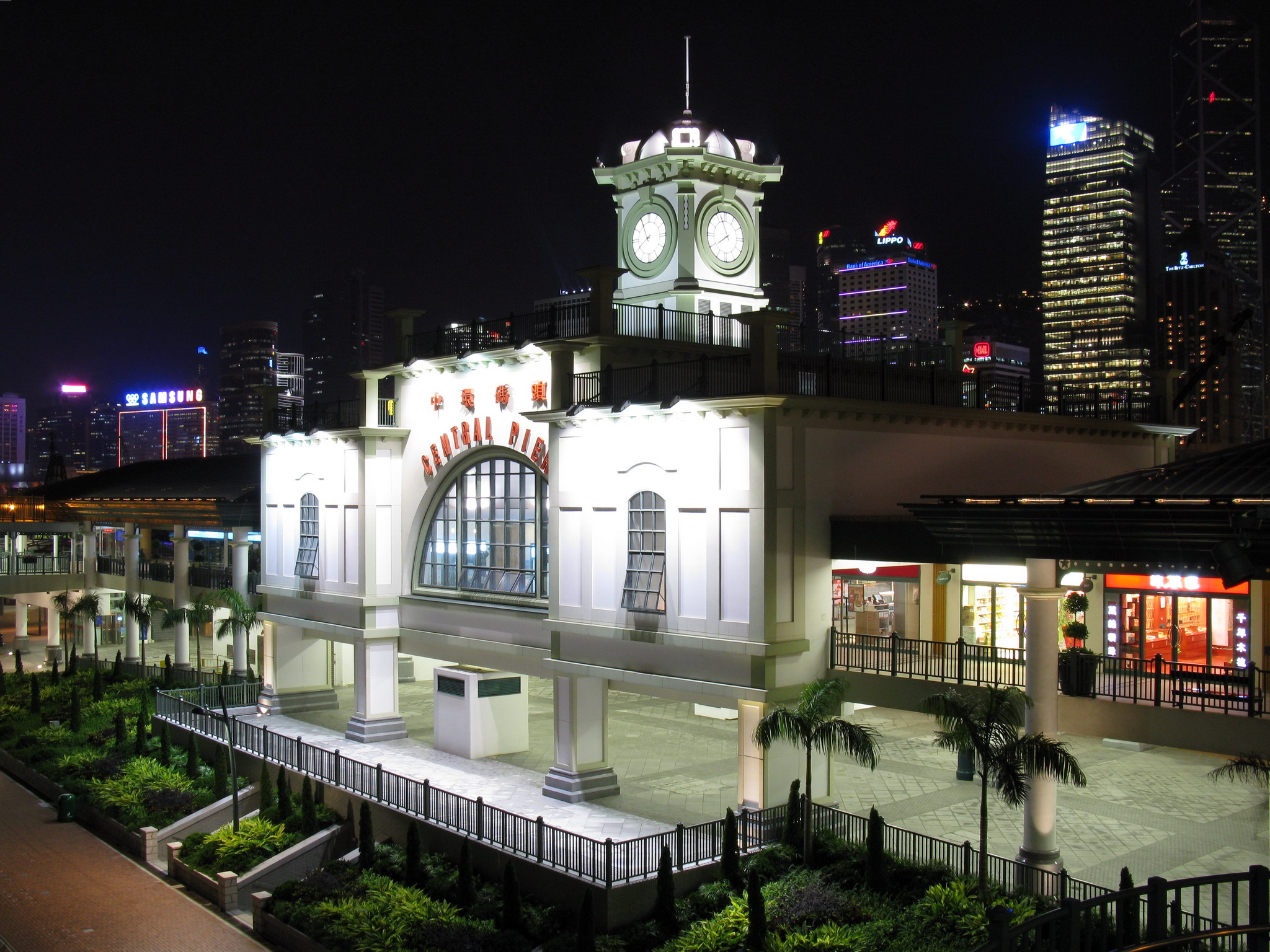 中環天星碼頭夜景 Night Scene of Central Star Ferry Pier